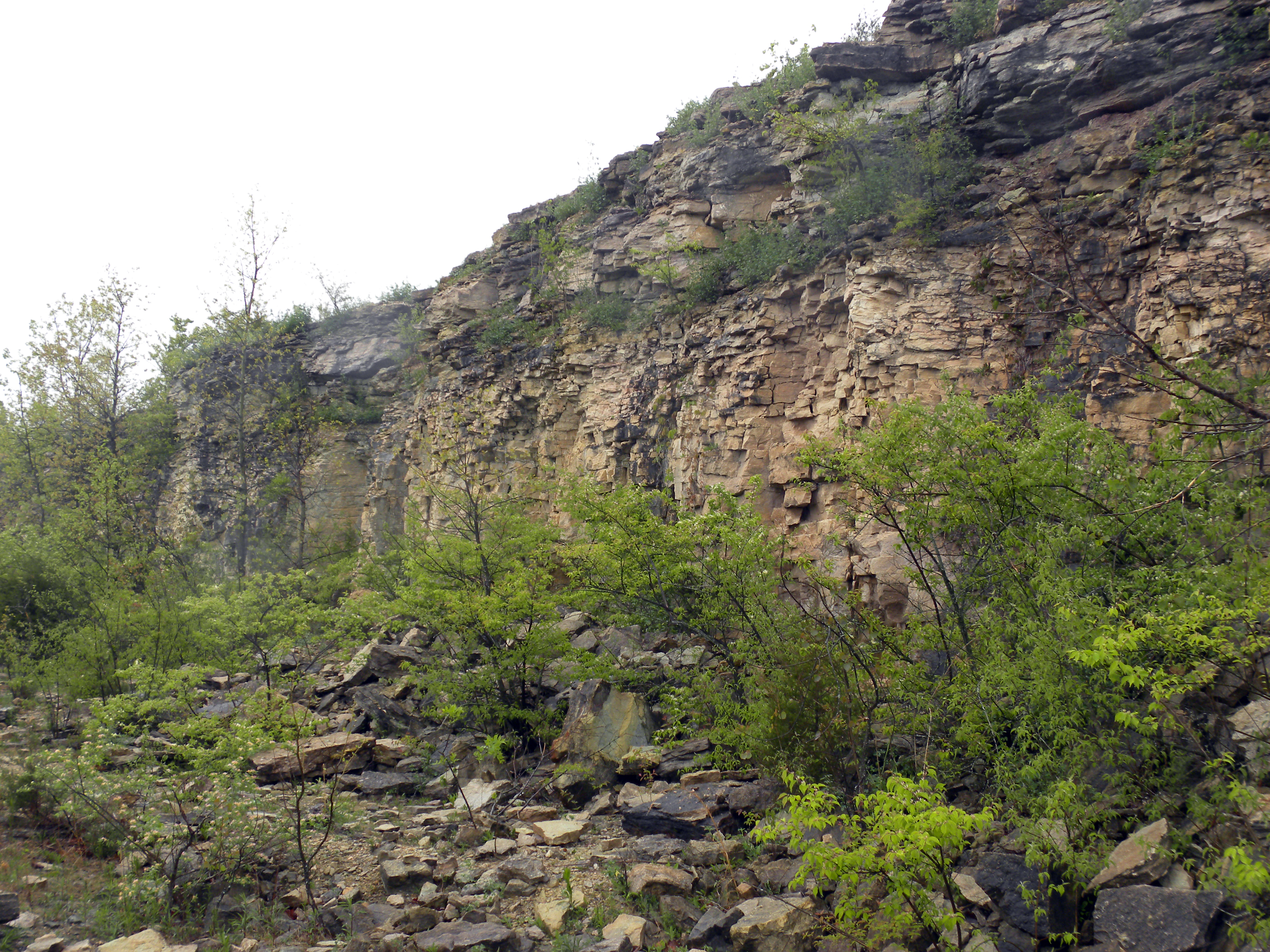 Outcrop of Brassfield Limestone (Early Silurian) in Oakes Quarry near Fairborn, Ohio, USA.